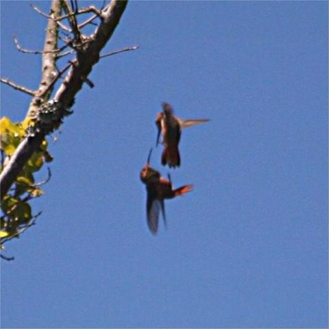 Two males hummingbird are fighting. They do it all the time, but it is all, but impossible to catch on film.The image was taken in San Francisco